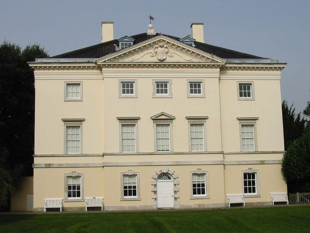 The South (River) front of Marble Hill House in west London.